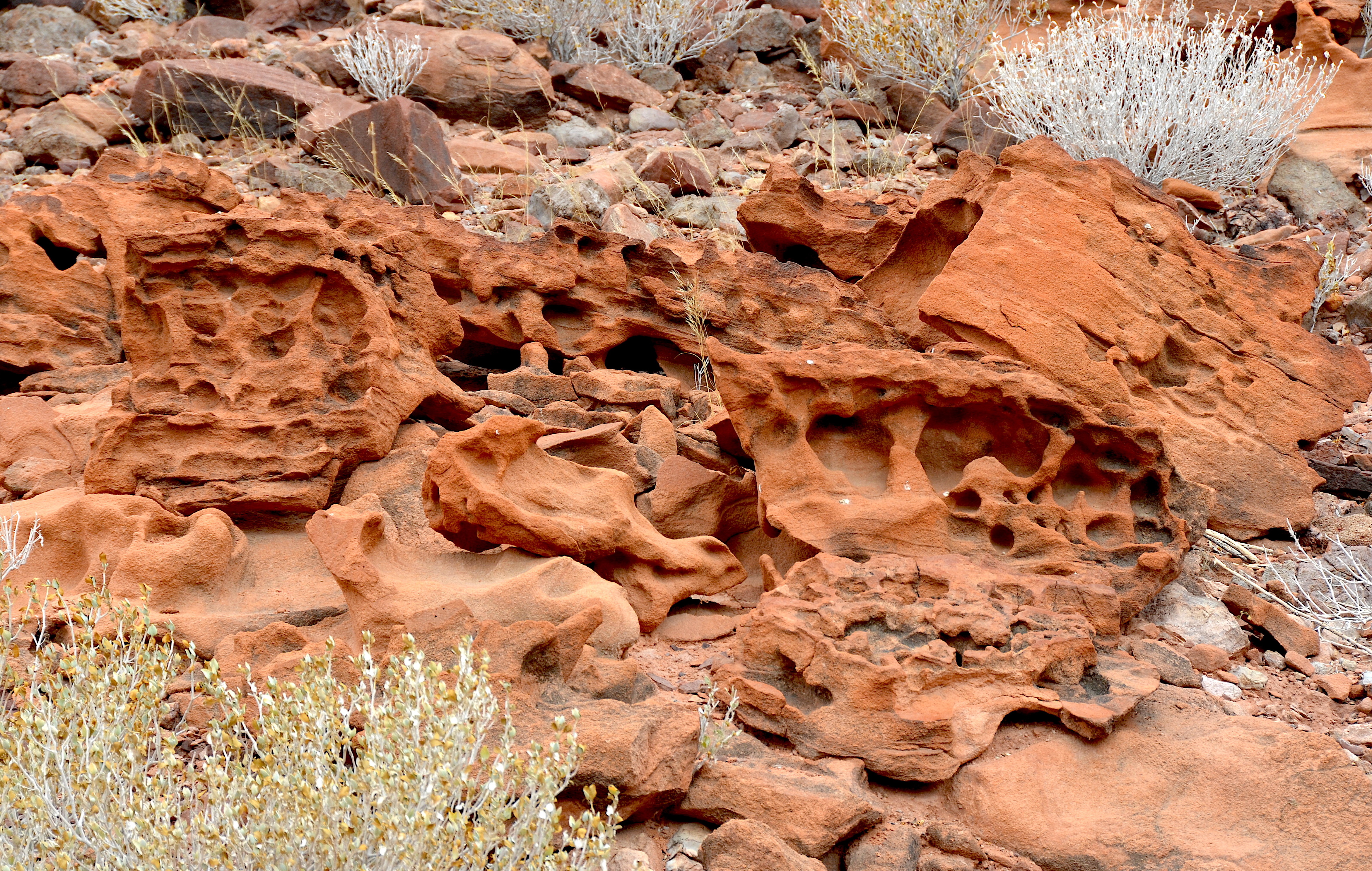 Tafoni in red “Karoo” sandstone (Ecca Group, Permocarboniferous) of the Huab Basin exposed in the slope of a butte at Twyfelfontein in nortwestern Namibia